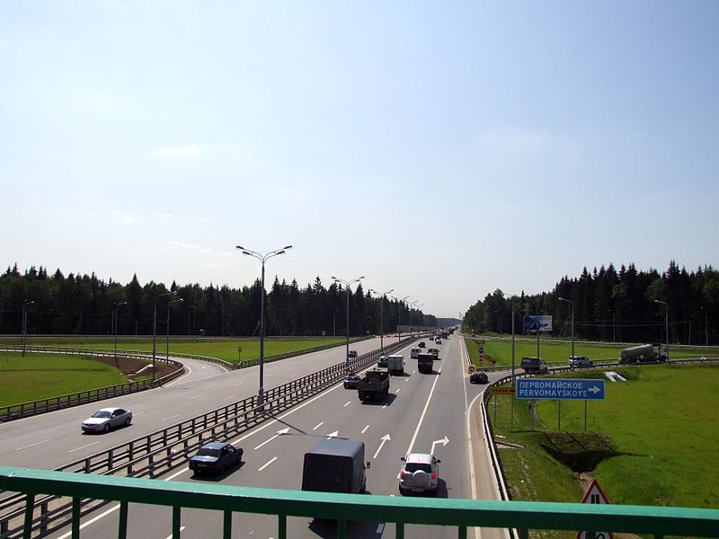 Russian Highway M3 "Ukraine"